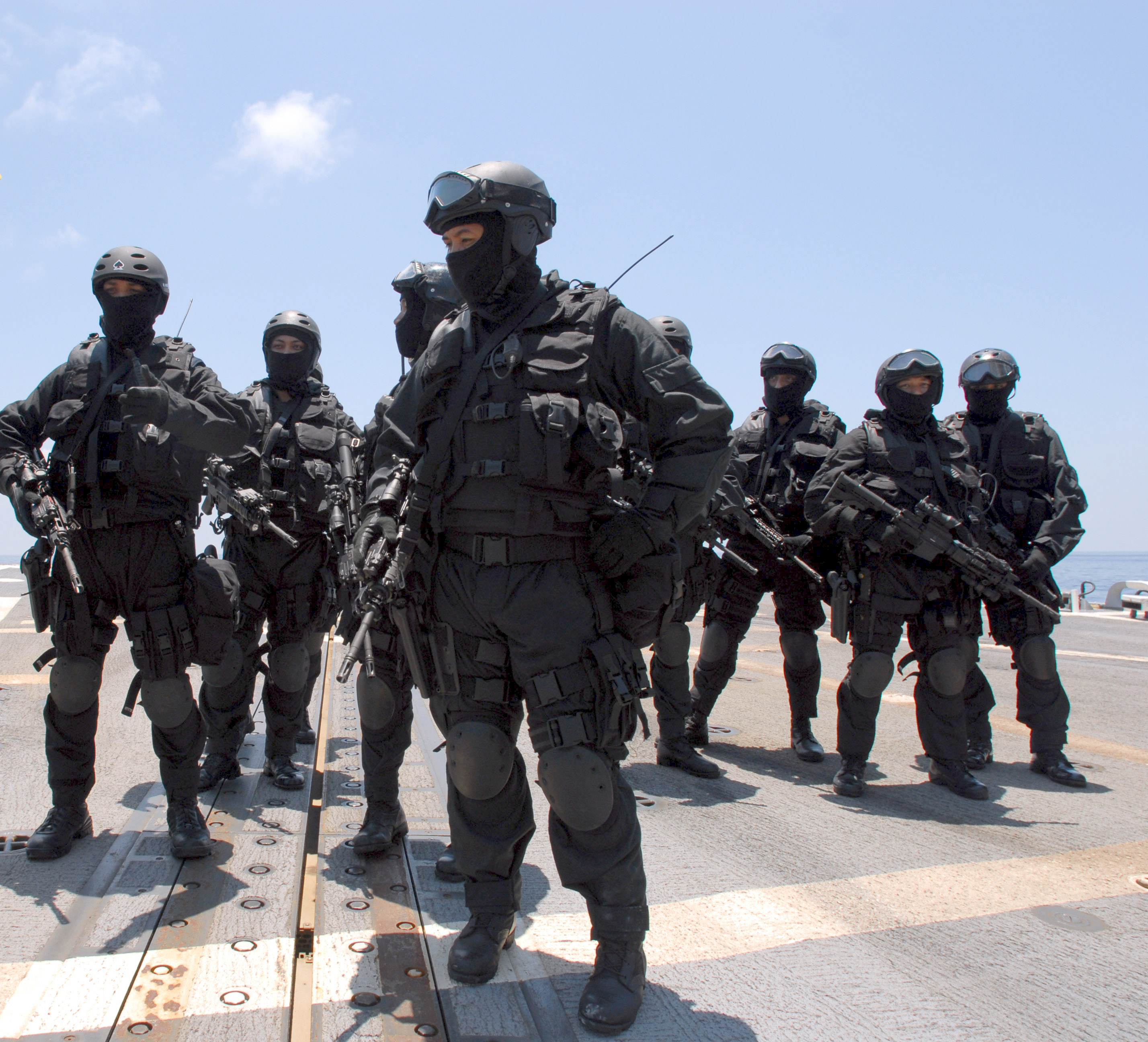 Members of a Brunei Special Forces unit during a visit, board, search and seizure exercise on board the Arleigh Burke-class guided-missile destroyer USS Howard (DDG-83) while under way in the Pacific Ocean. Howard is participating in Southeast Asia Cooperation Against Terrorism (SEACAT) exercises with the Brunei air force and navy off the coast of Brunei. VIRIN: 080818-N-1635S-009